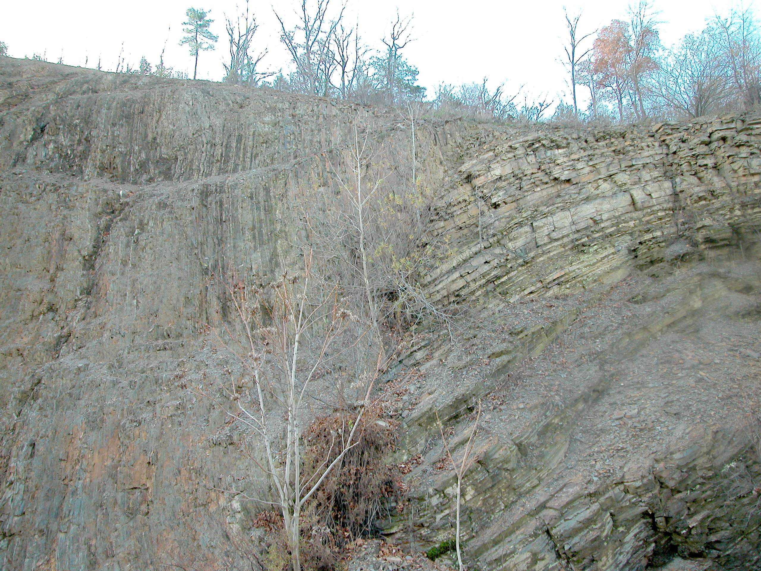 Dividing fault between Appalachian Mountains and Allegheny Plateau. A major geologic fault (directly behind small trees) can be seen in a new roadcut about 10 miles north of Williamsport, Pennsylvania on new Route 15. The fault is just about at the line that divides the folded Appalachian Mountains and the merely uplifted dissected plateau of the Allegheny Plateau. On the left hand (south side) is metamorphic rock. On the right hand is sedimentary rock, which, as one continues northward becomes mostly horizontal. Image copyleft: Image taken by me, released under GFDL, Pollinator 06:08, Dec 25, 2004 (UTC)